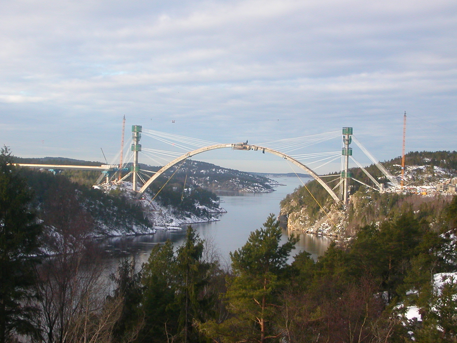 Image of Svinesund Bridge